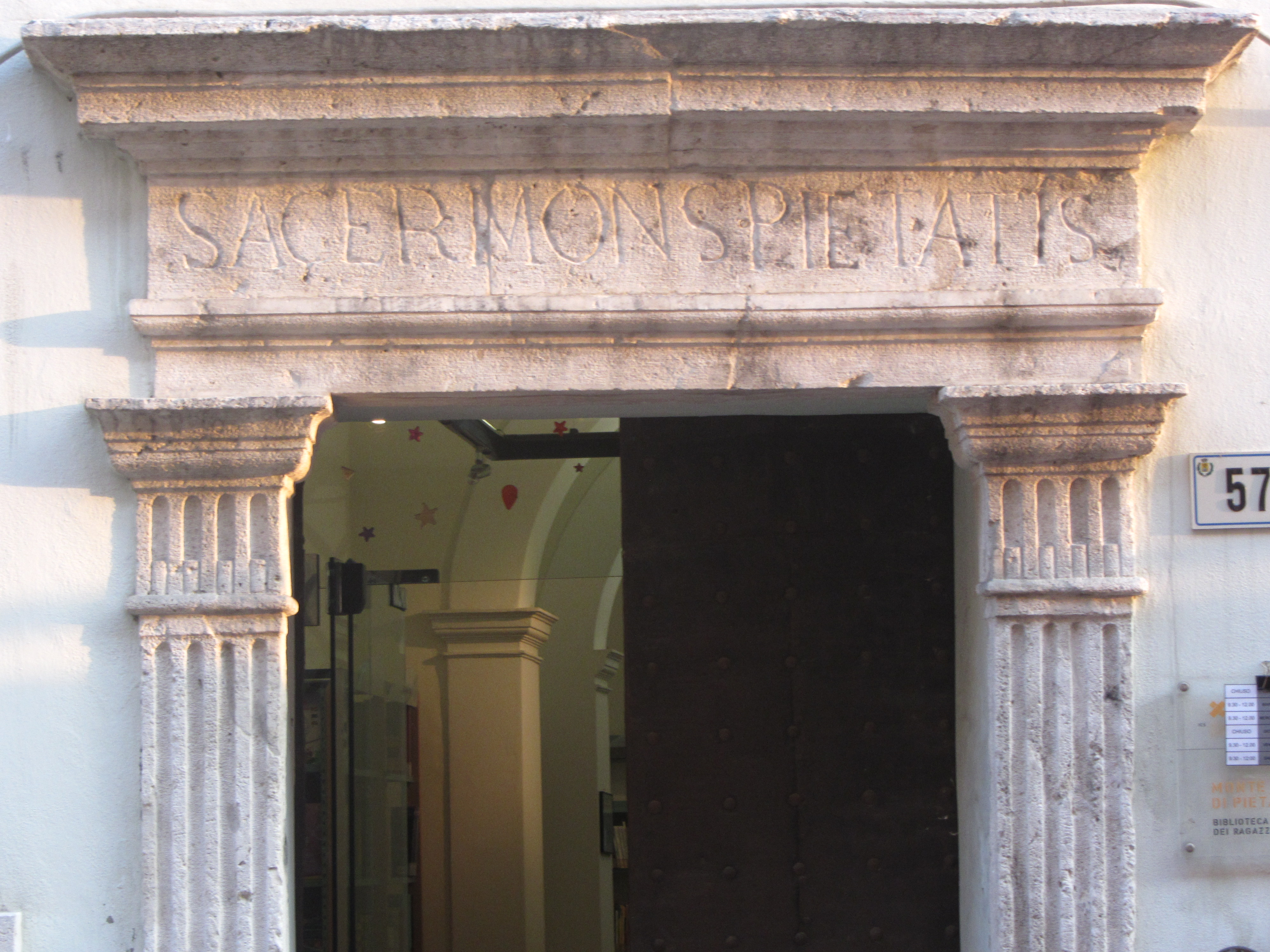 Savignano sul Rubicone, Monte di Pietà